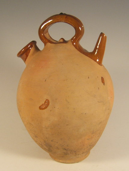 potery pitcher, water vessel from Catalonia, Spain